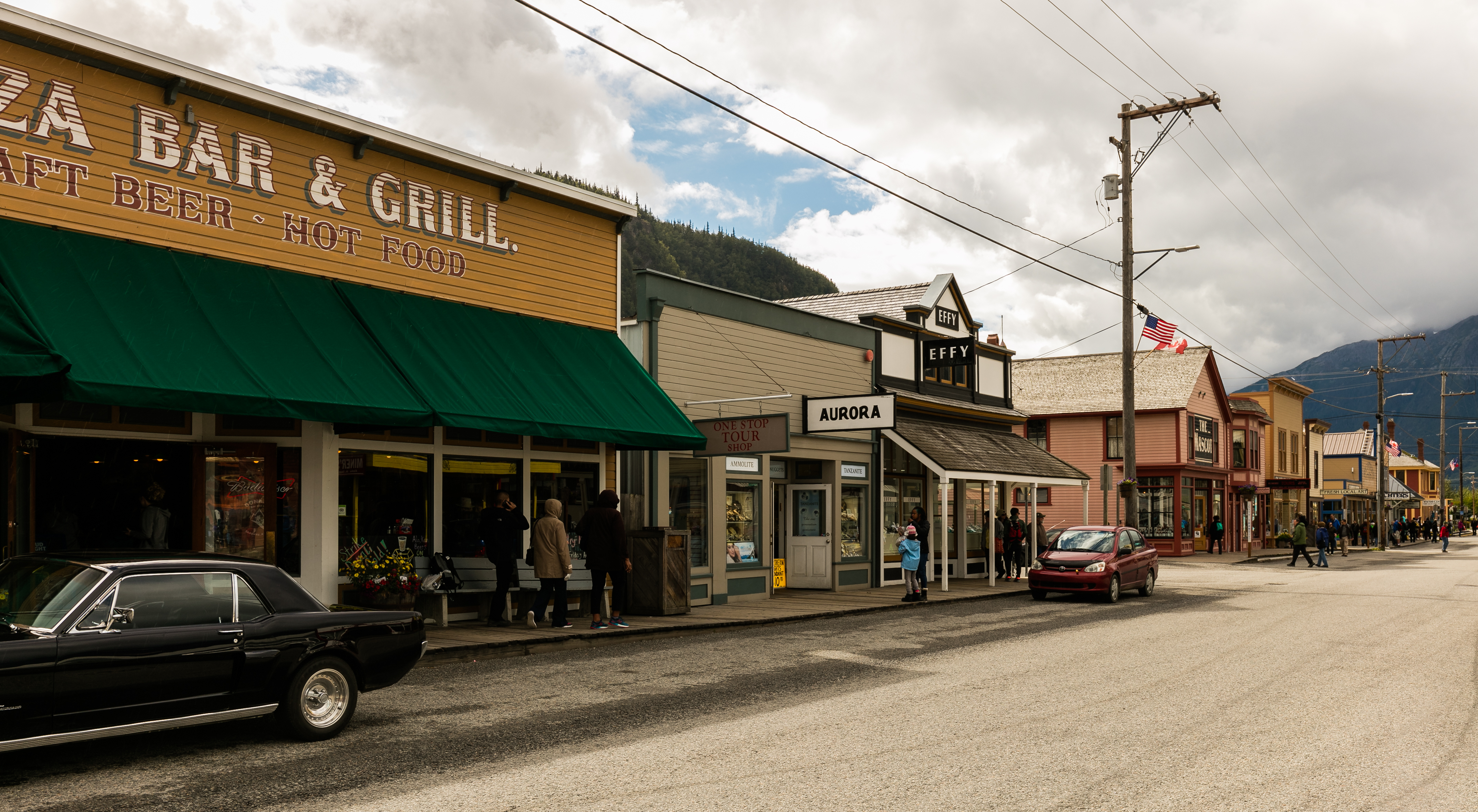 Skagway Historic District, Alaska, United States